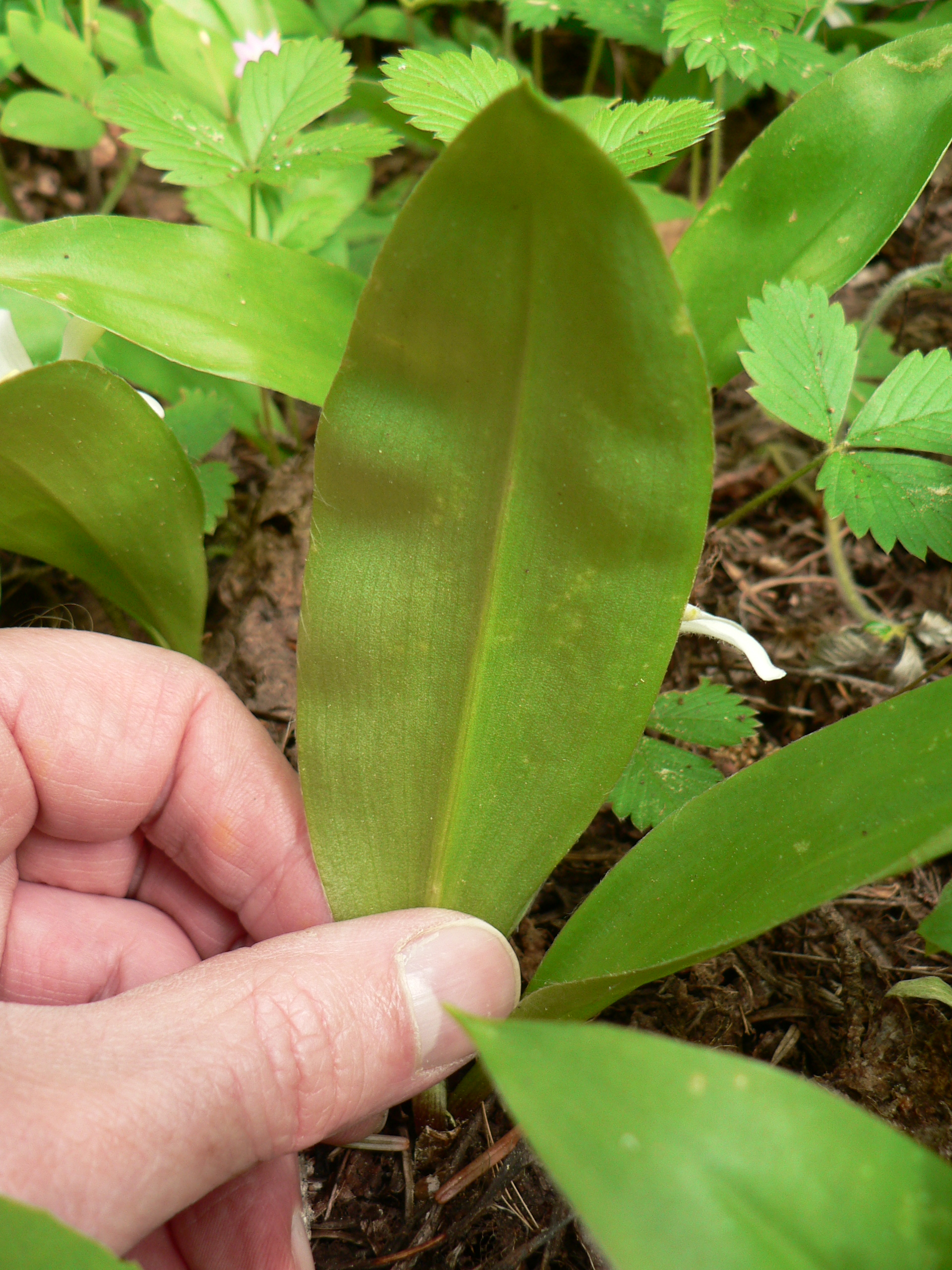 Queen's Cup, Bride's-bonnet